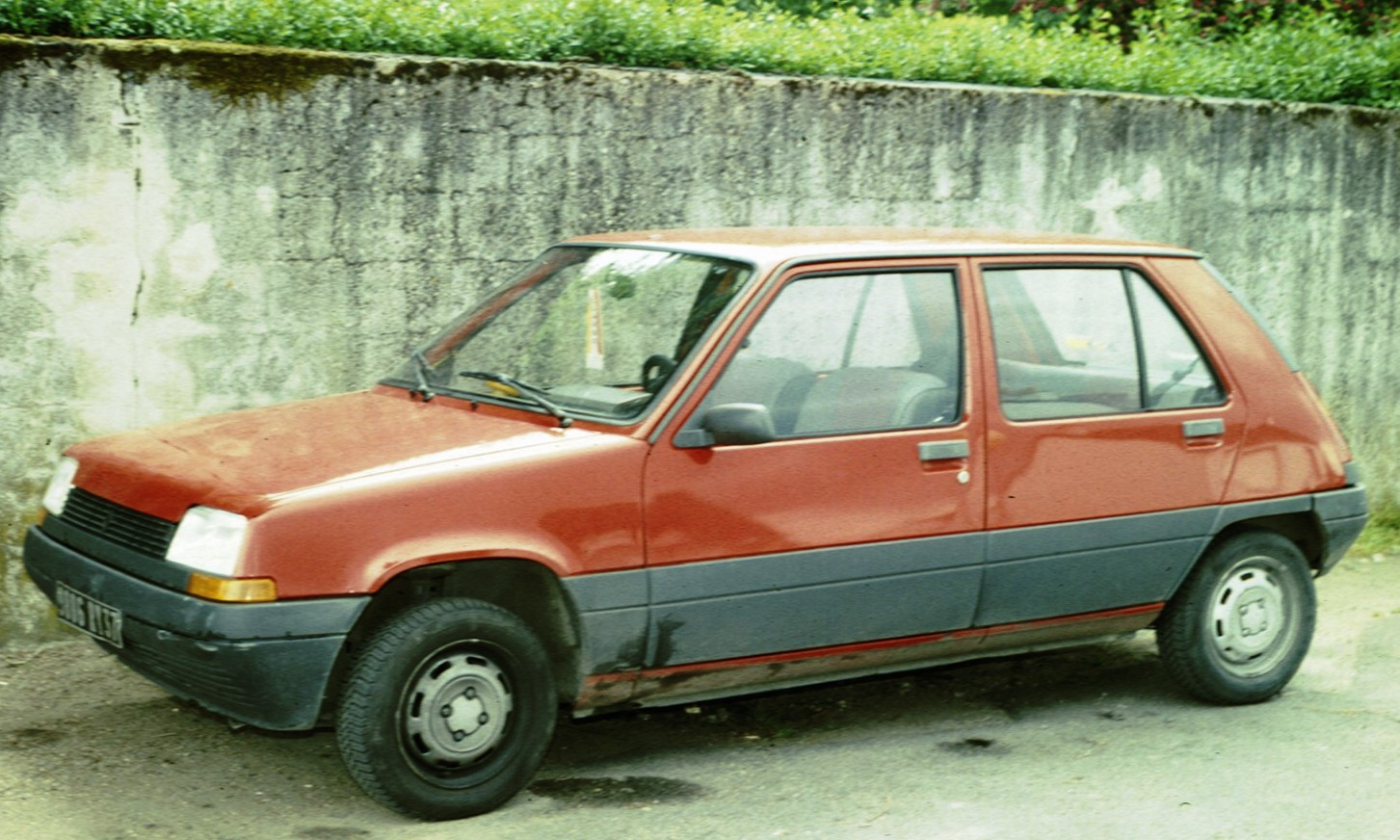 Renault 5 second generation with 5 doors and a concrete backdrop